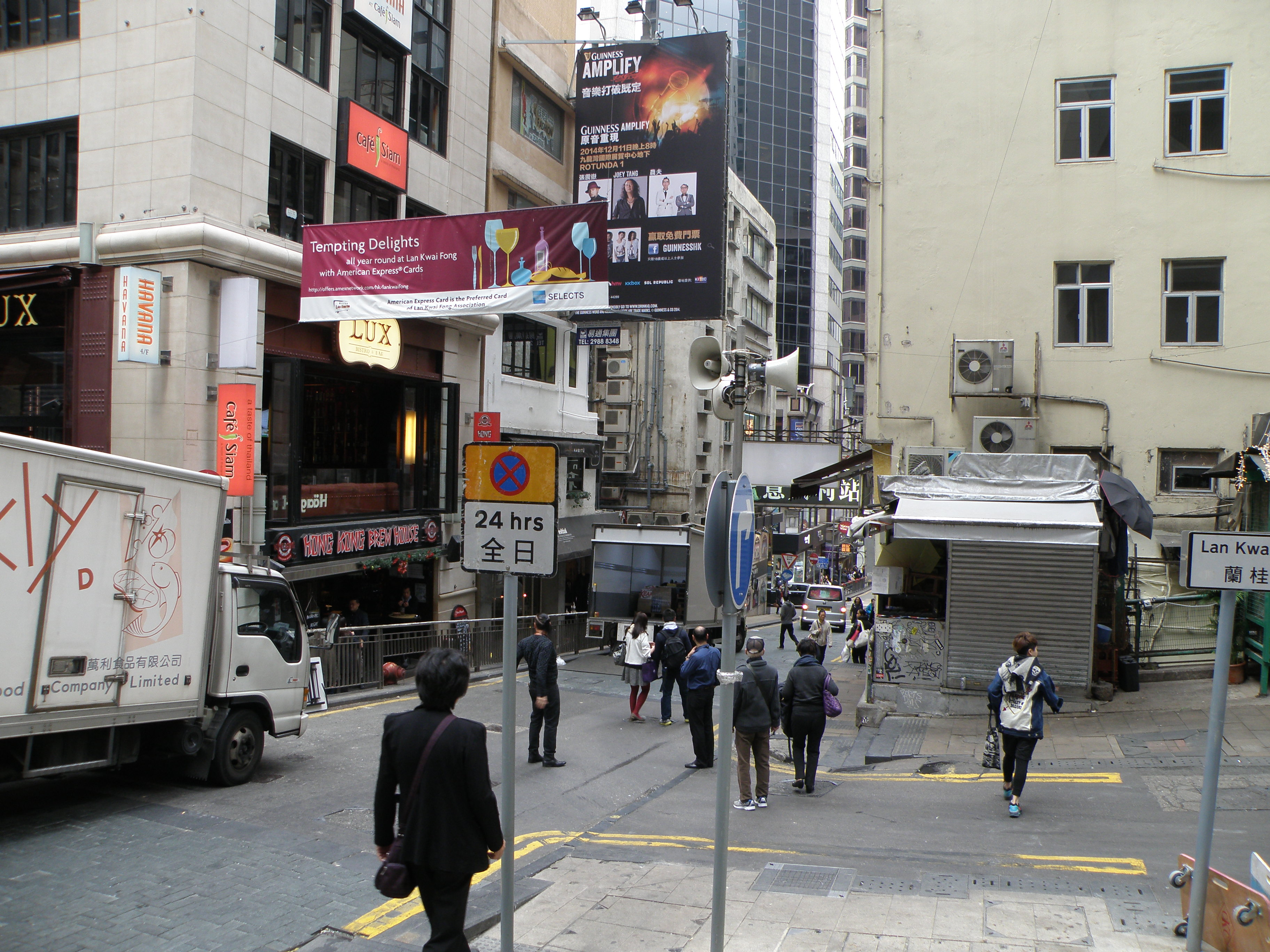 Junction of D'Aguilar Street and Lan Kwai Fong, Central, Hong Kong. This place occured human stampede disaster in New Year's Day of 1993, which killed 21 people and injured 62.